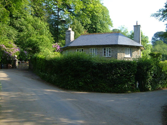 Lodge to Black Hall, near Avonwick. To the left of the lodge can be seen the gateposts to one of the driveways to the hall. On the lane between Avonwick and North Huish.